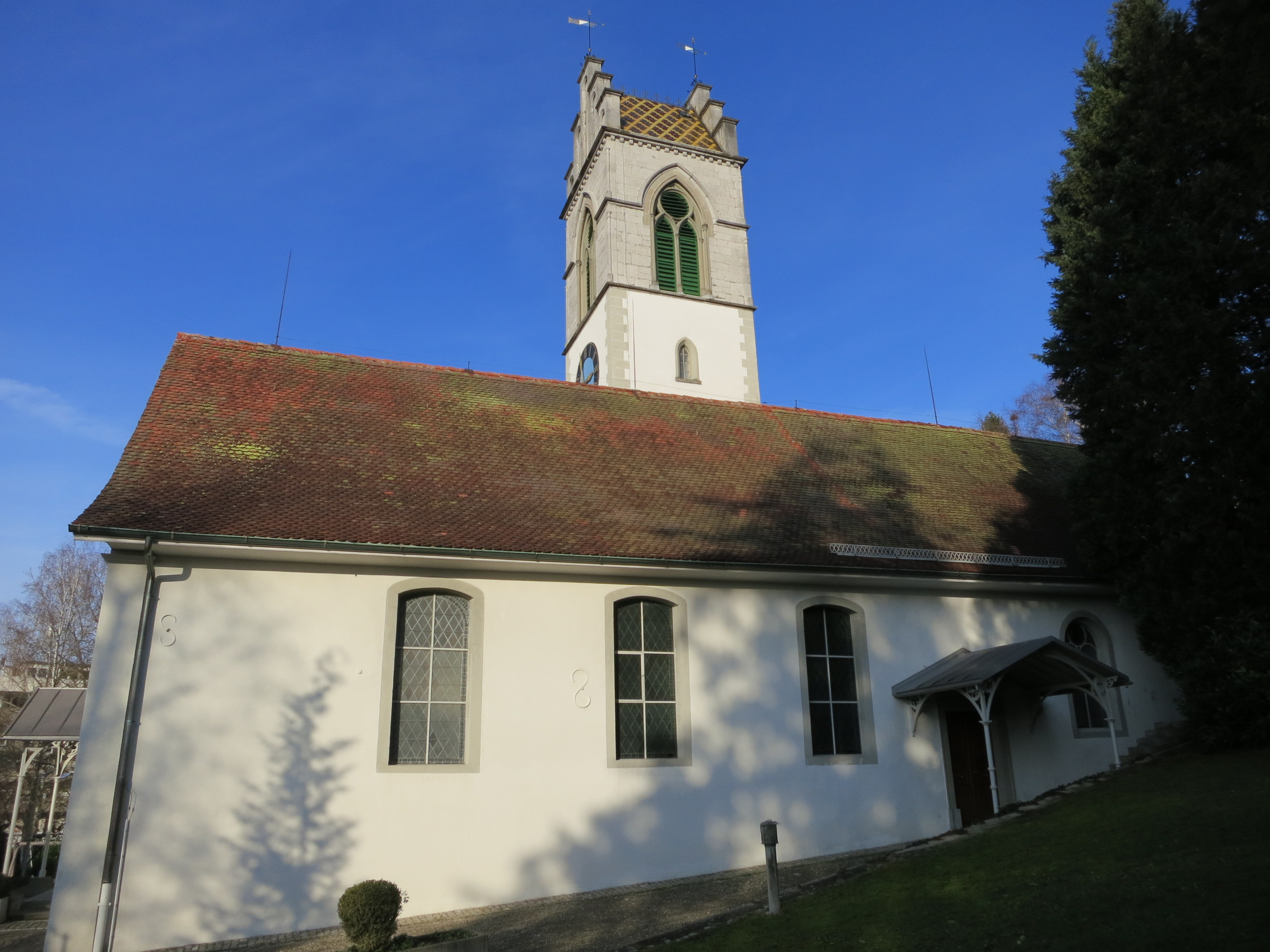 Reformierte Kirche, Affoltern am Albis ZH, Schweiz